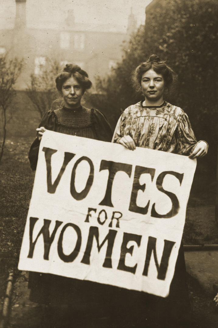 WSPU leaders Annie Kenney (left) and Christabel Pankhurst